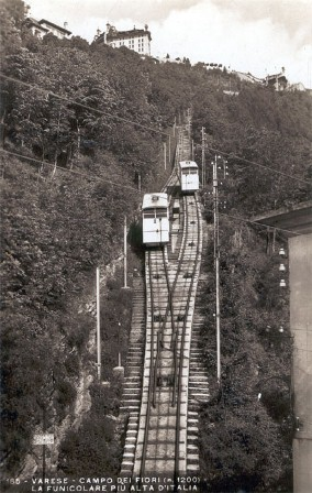 Campo dei Fiori funicular